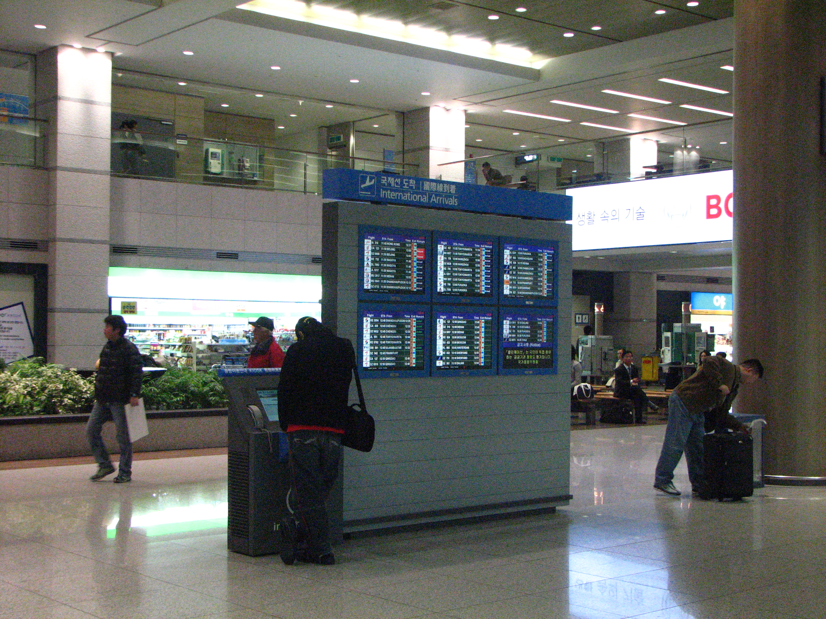 Arrival Terminal of Incheon Airport